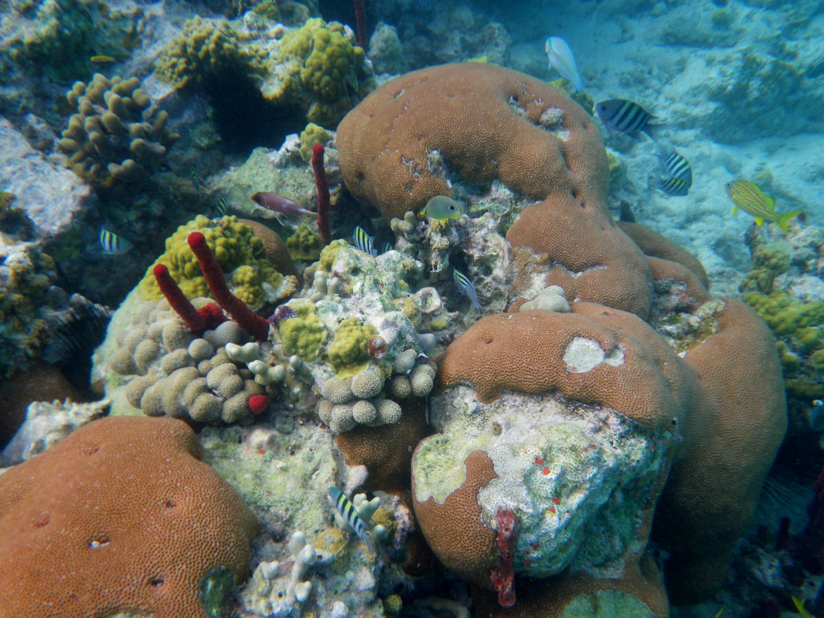 Several Massive Starlet Corals (Siderastrea siderea), British Virgin Islands